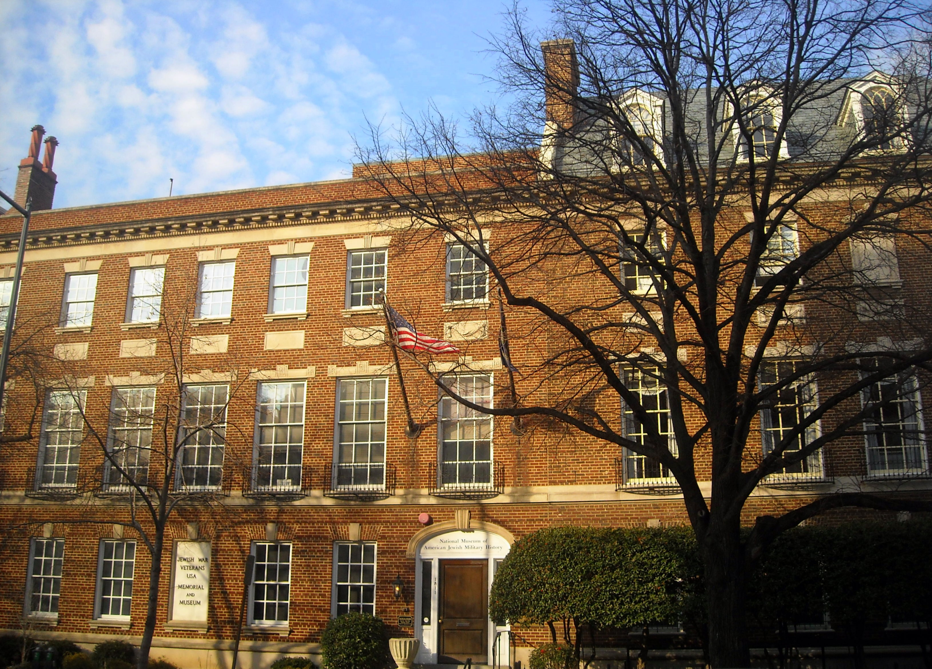 National Museum of American Jewish Military History located at 1811 R Street, NW in the Dupont Circle neighborhood of Washington, D.C. The building is a contributing property to the Dupont Circle Historic District.